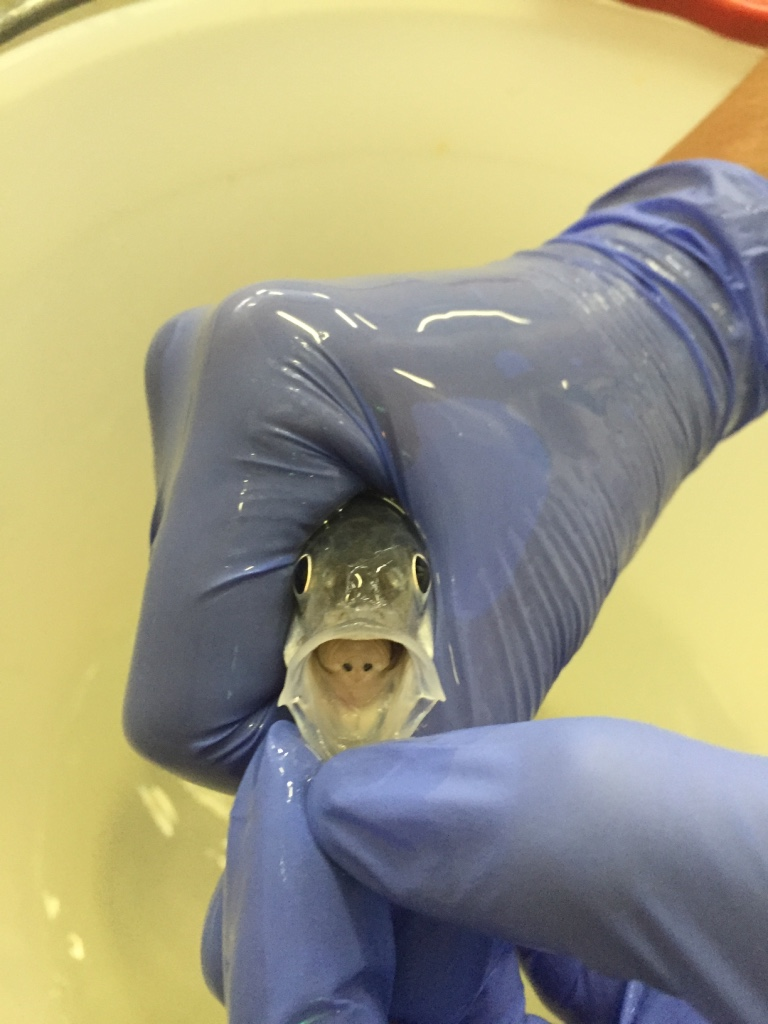 Adult female of Ceratothoa oestroides settled in the buccal cavity of the juvenile European sea bass (Dicentrarchus labrax). (Image copyright Ivona Mladineo)